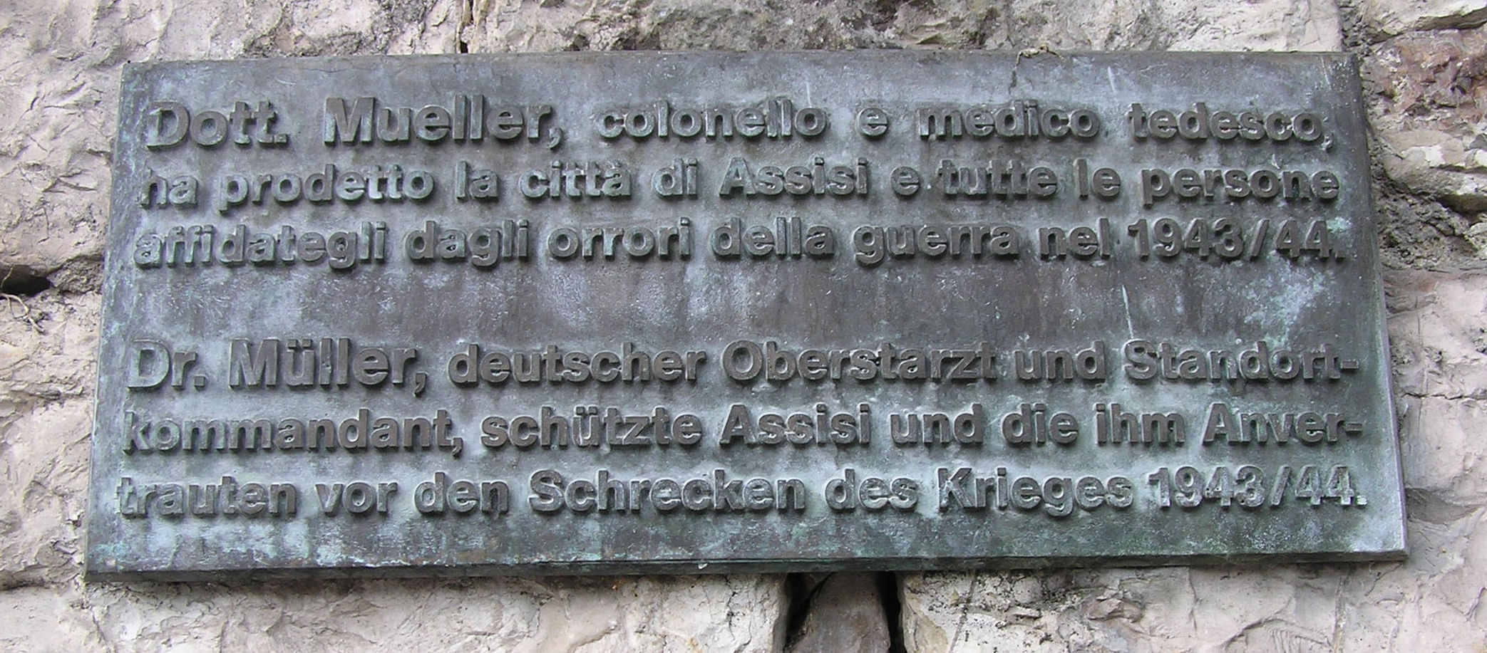 Memorial for colonel Valentin Müller, German commander and protector of Assisi under World War II